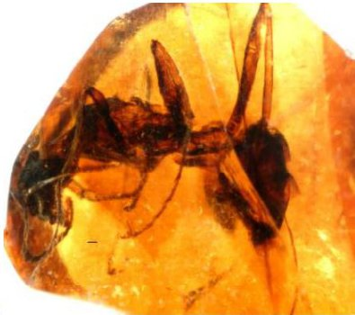 Figure 1. Photographs of Boltonimecia canadensis. A) General habitus, lateral view. Scale line = 0.1 mm